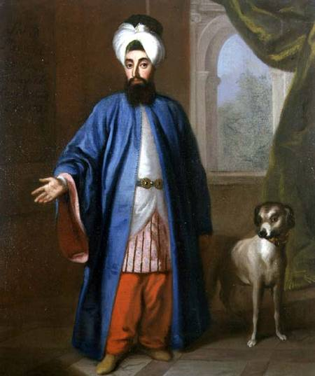 Portrait of Sahid Mehemet Effendi Emissary to the Swedish Court in 1733